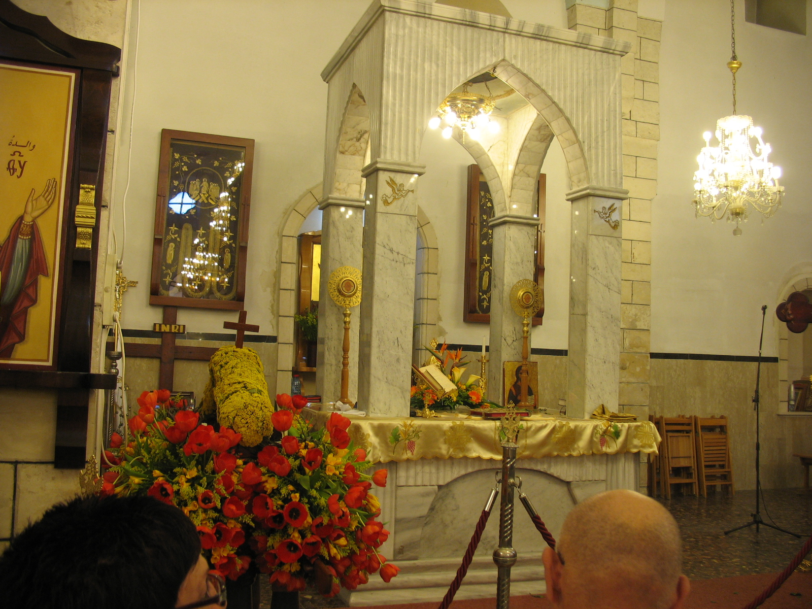 The Catholic church